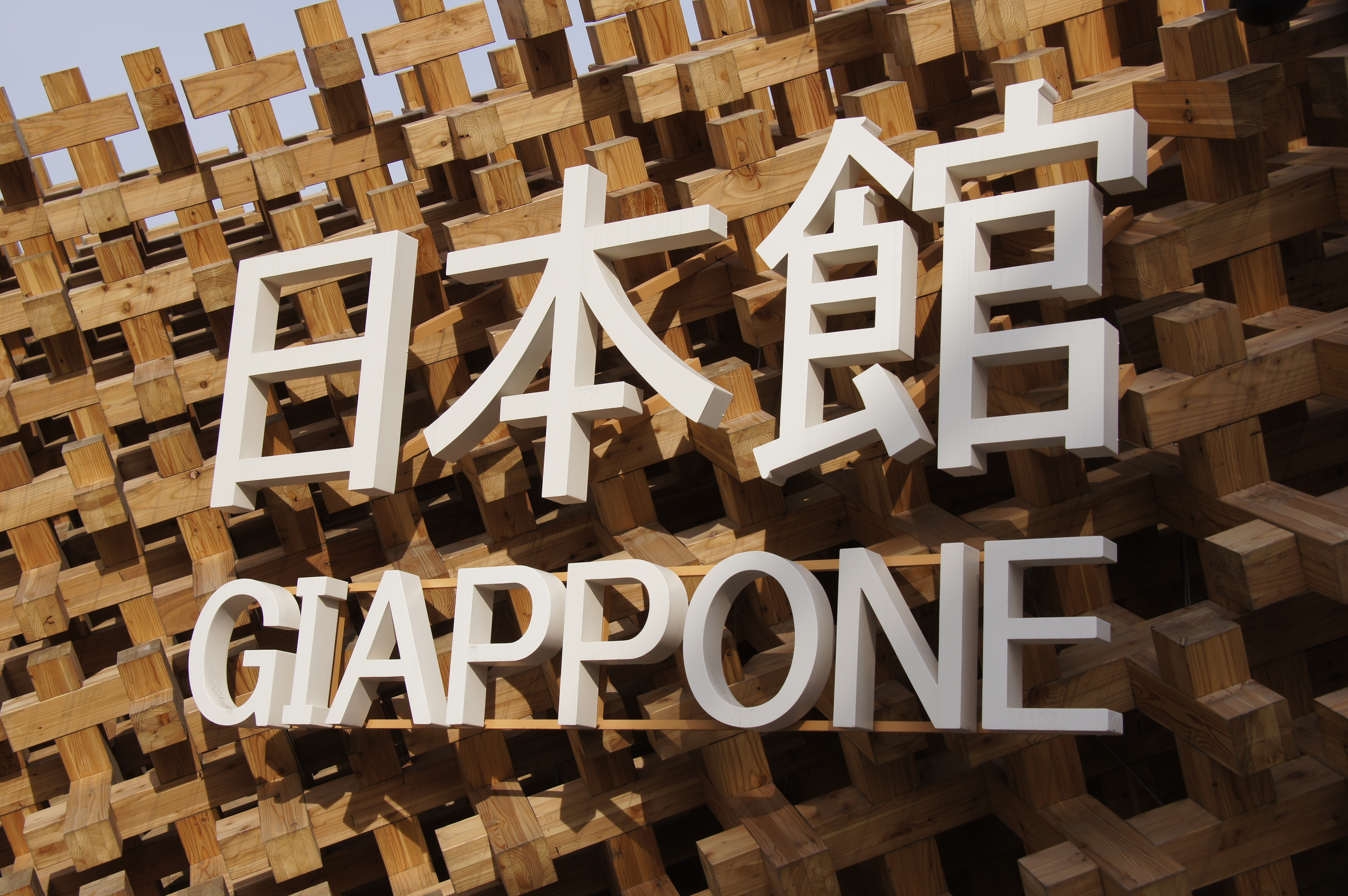 Japan Pavilion, Expo 2015, Milan, Italy.